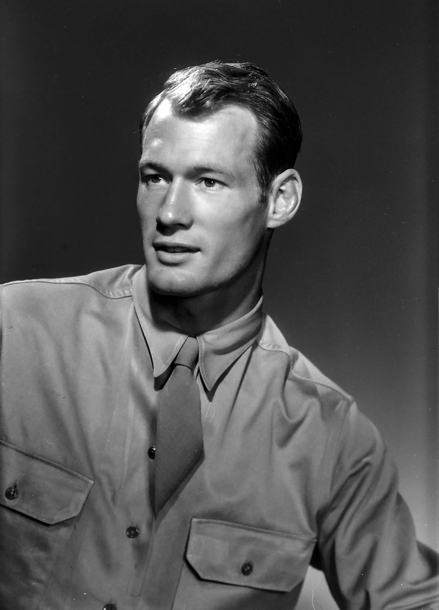 Studio photo of Chip Harkness taken in early to mid 1940s